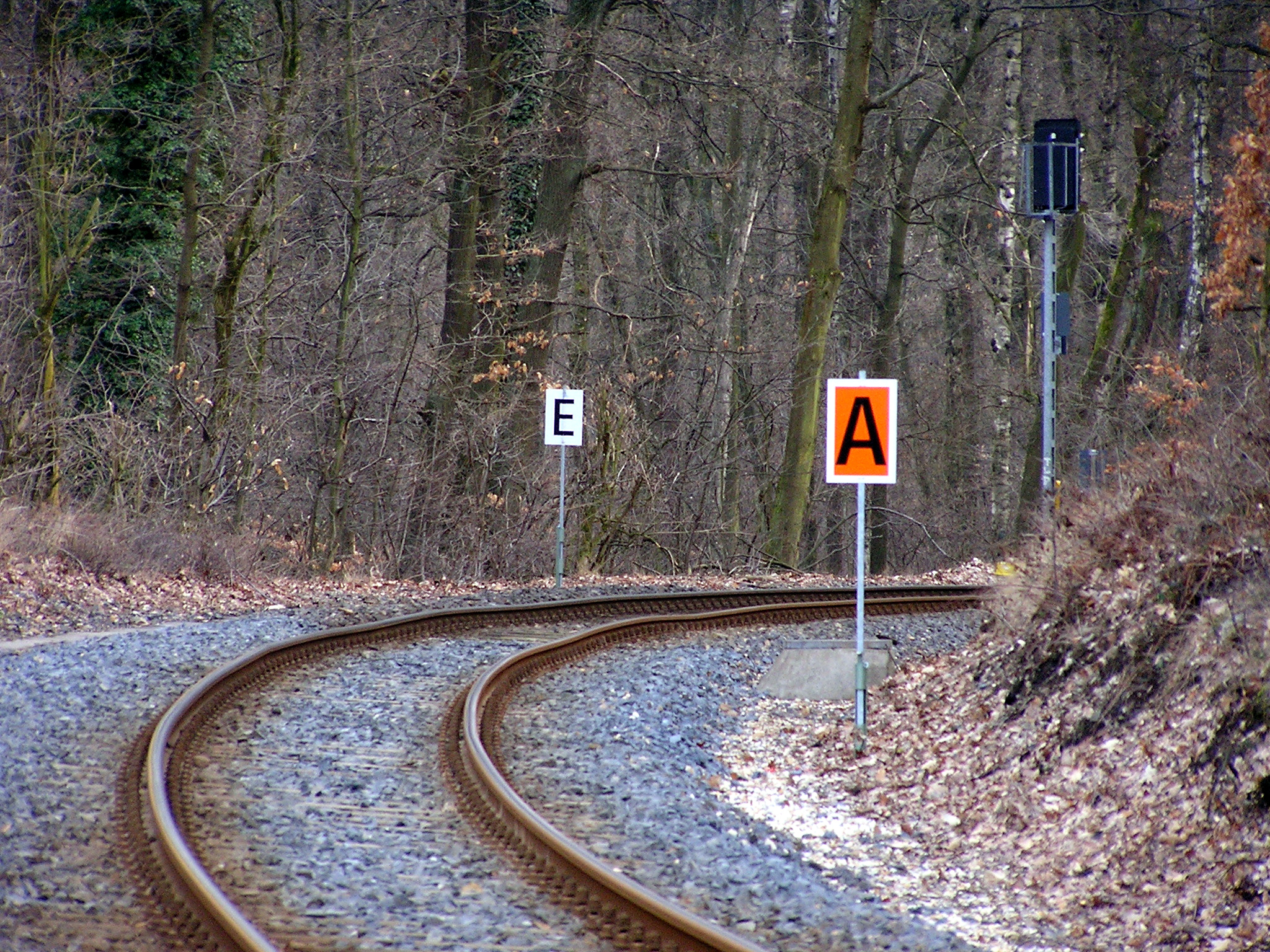 Short slow zone due to a light sun kink (in this case because of new ballast and coldness)